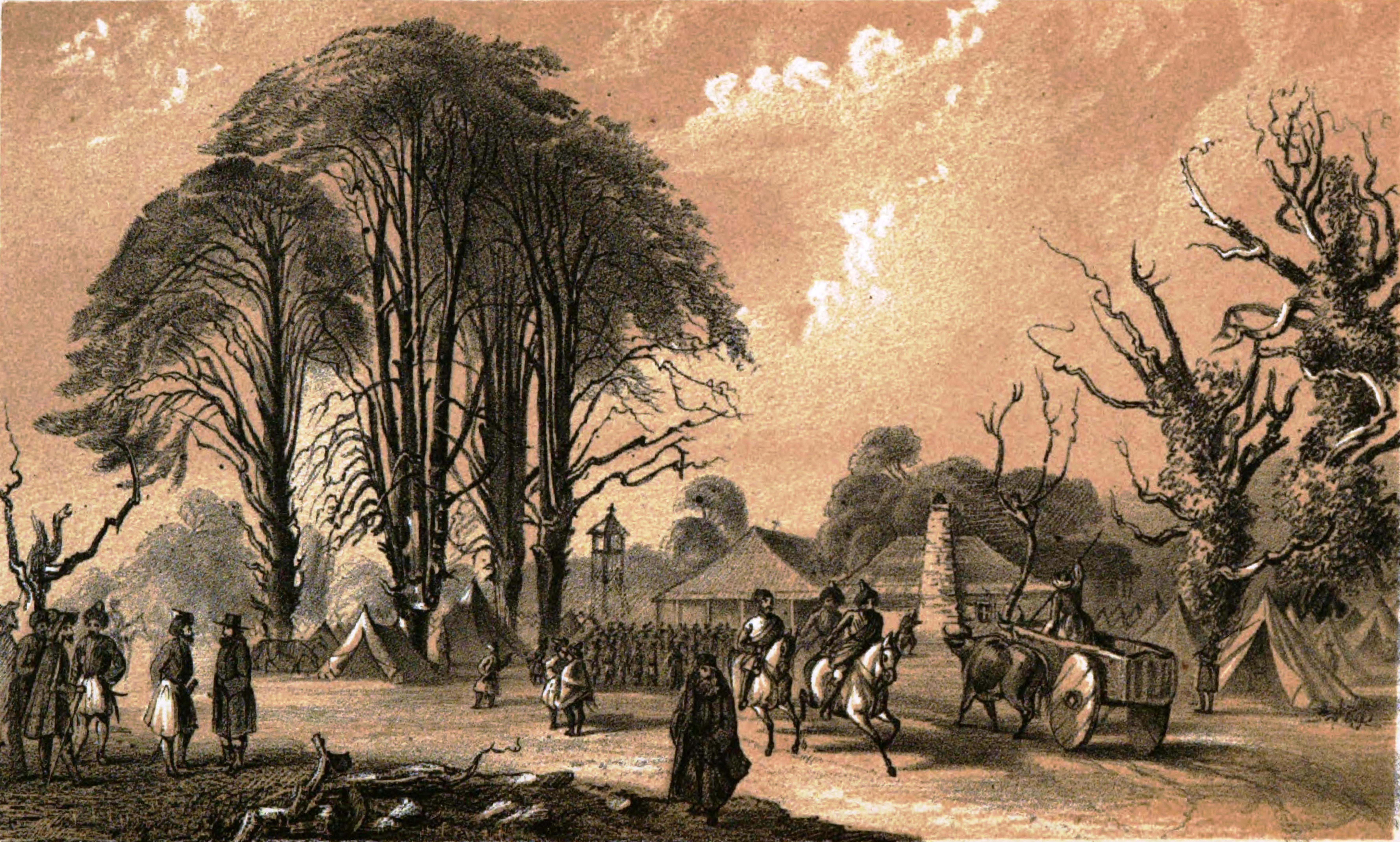 Head quarters of Omer Pacha near the Skeniscal (Tskhenis-Tskali River). Laurence Oliphant, The Trans-Caucasian campaign of the Turkish army under Omer Pasha: a personal narrative